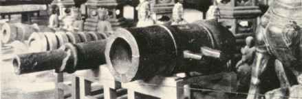 A 1377 year made chinese Bombard (weapon),photo taken at Taiyuan